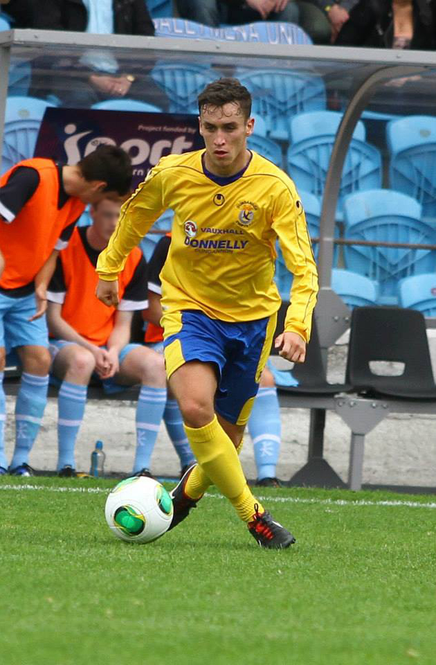 Notable Danske Bank Premiership Footballer Grant Hutchinson